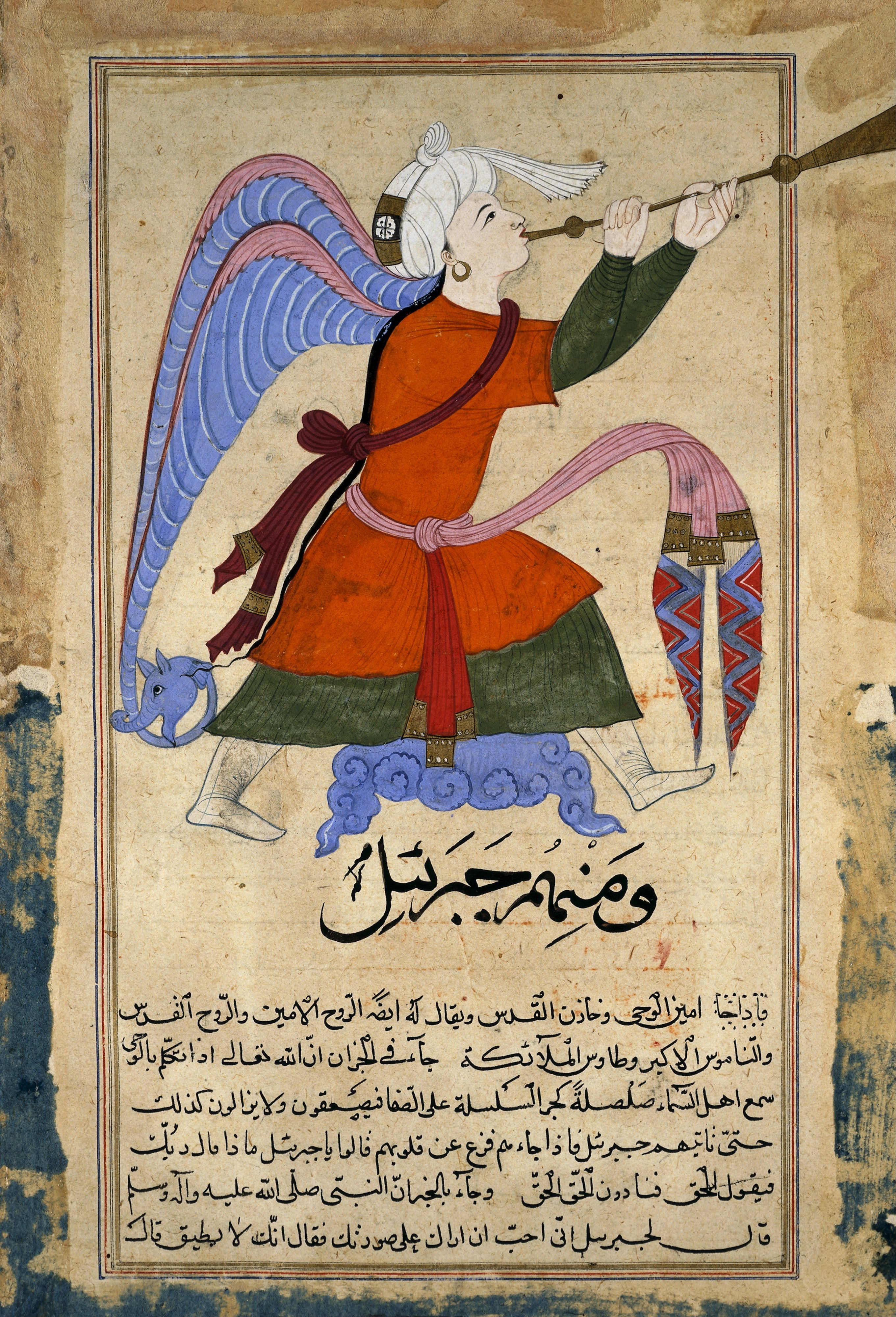 A page from 'The Wonders of Creation and the Oddities of Existence' - Egypt/Syria c.1375-1425 AD. See more from this site.